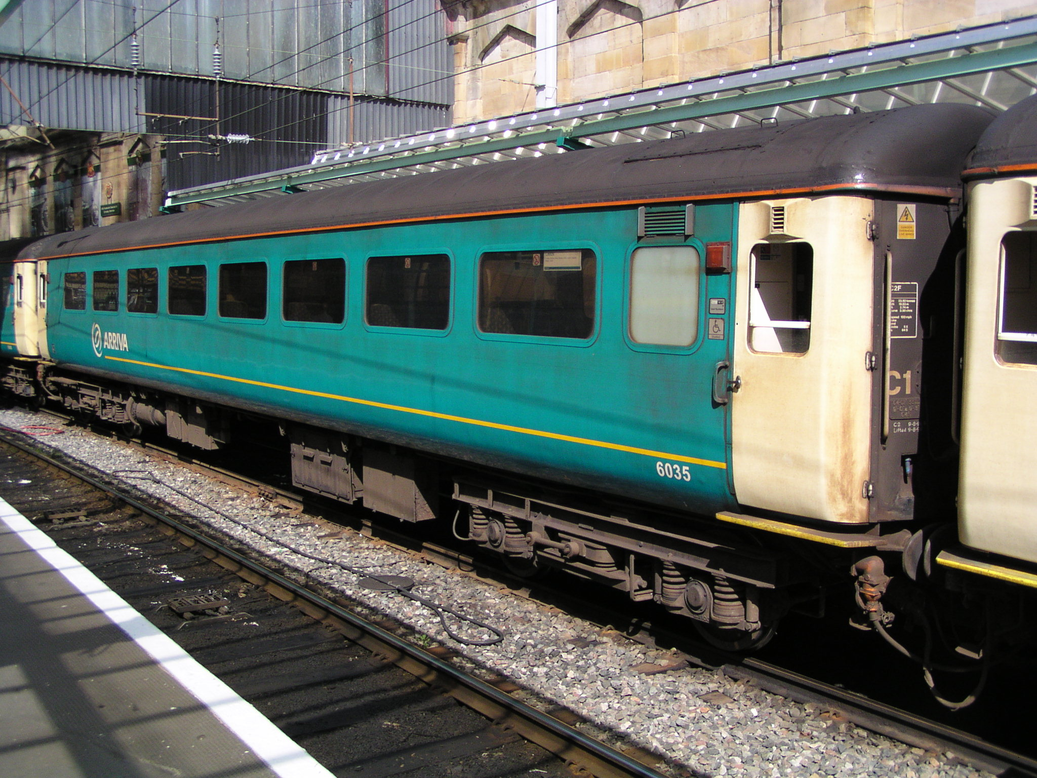 BR Mark 2F TSO 6035 at Carlisle on 27th August 2004. This vehicle is painted in Arriva Trains Northern livery. Image by Phil Scott (Our Phellap)